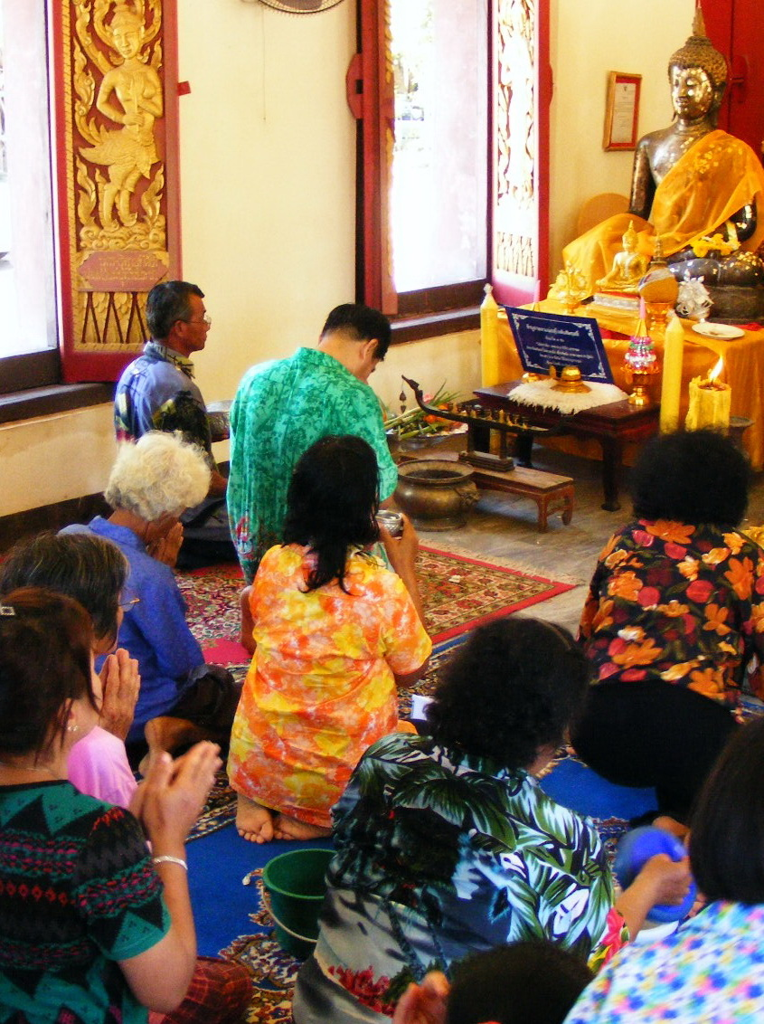 Phra Buddha Sukothai Tri Lokashet Location: Wat Khung Taphao Ban Khung Taphao, Khung Taphao subdistrict, Mueang Uttaradit, Uttaradit Province, Thailand.